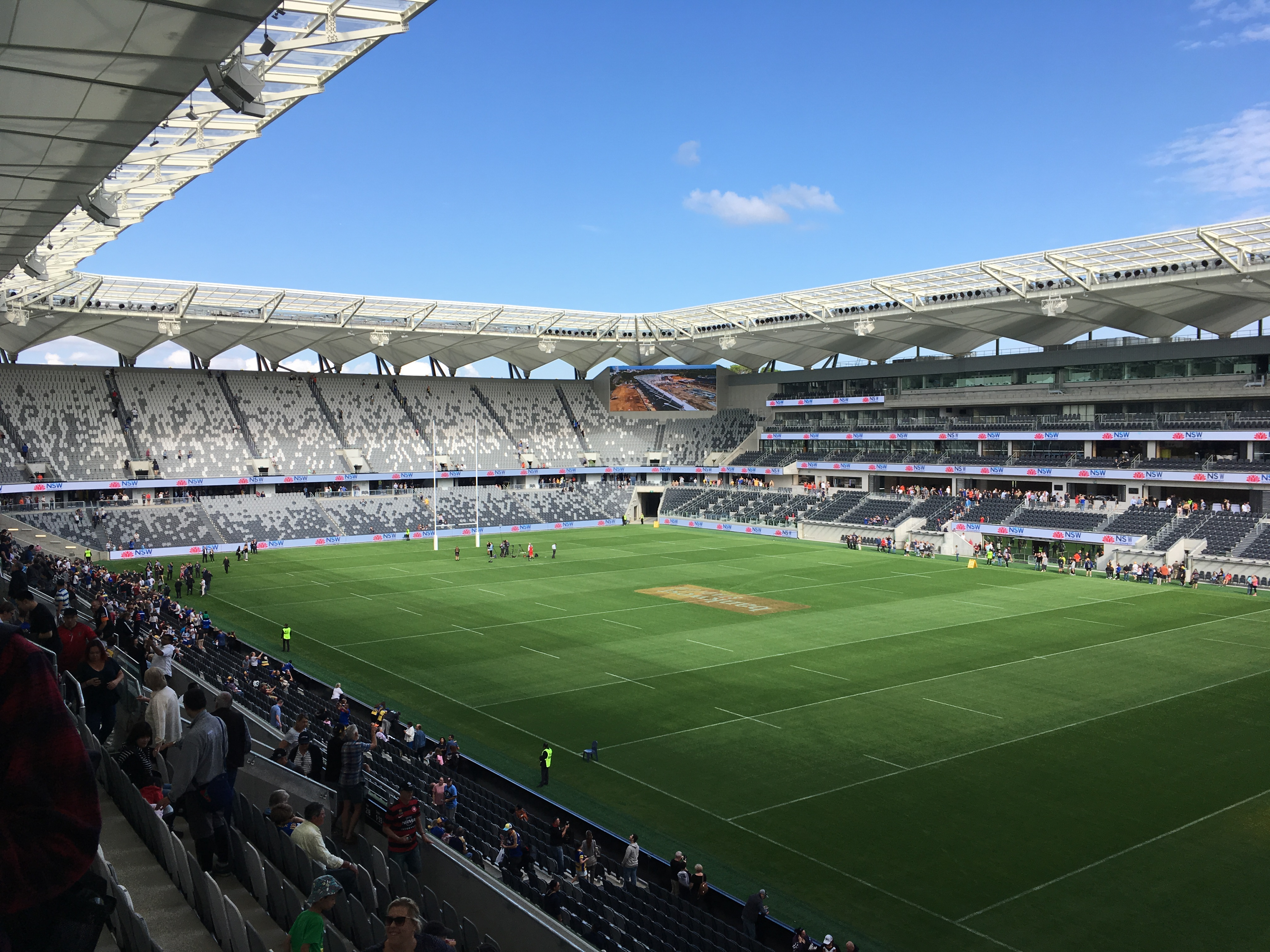 A view from the northeast corner of Western Sydney Stadium, looking towards its southwest corner. Taken on 14 April 2019, the day Western Sydney Stadium was officially opened and the first open house event occurred. The stadium replaced the former Parramatta Stadium, which stood on this site from 1985 to 2017. The stadium will be the permanent home ground of the Western Sydney Wanderers and the Parramatta Eels, while the Wests Tigers and Canterbury-Bankstown Bulldogs will use the venue occasionally for home games, and the New South Wales Waratahs will use the venue while their traditional home ground, the Sydney Football Stadium, is being rebuilt.